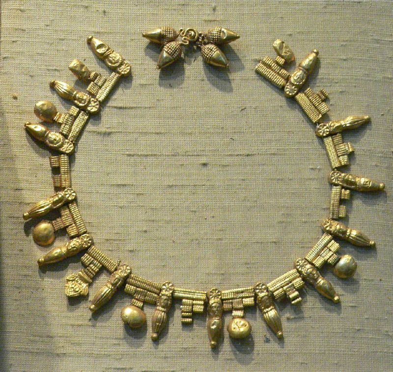 A 5th to 4th century BCE Etruscan necklace. This ancient Etruscan object is now displayed at the University of Pennsylvania Museum of Archaeology and Anthropology.